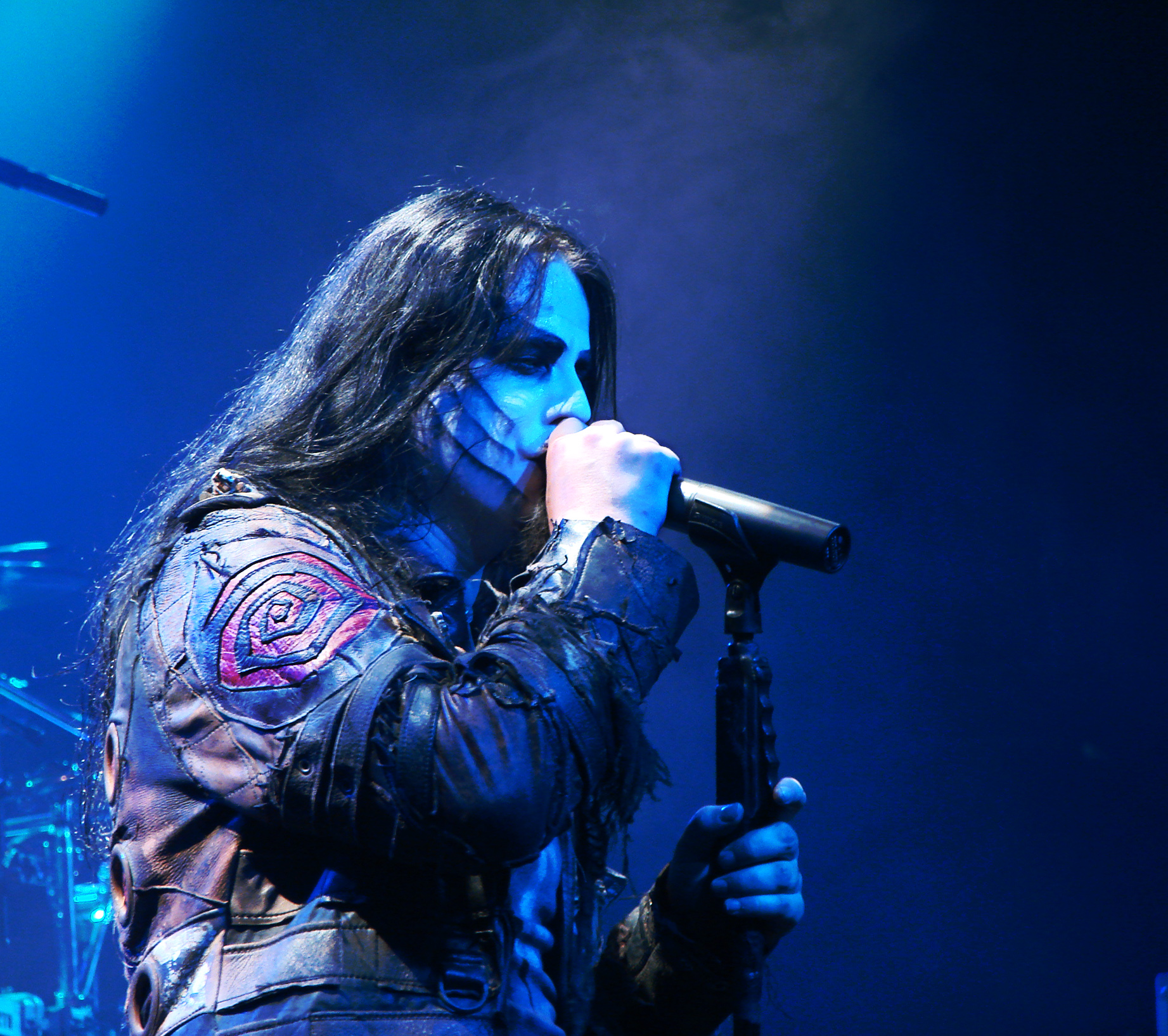 Dimmu Borgir,the Black Metal band from Norway, during their concert in Paris, the 4th of October 2007. Vocals: Shagrath.